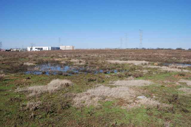 This image of the now empty mall site in 2008. The area where water is standing is the location of the former Ice Chalet ice skating rink. Beyond the rink area is the former Dillard's Department Store location. More pictures from this series can be found at including pre and post demolition images.